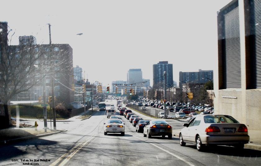 Syracuse's University Hill traffic situation (April 2005). Harrison Street @ Irving Ave., looking west toward downtown. The Upstate Medical University Institute for Human Performance building is on the immediate right. (For a picture of the same intersection, 13 years later, see File:University Hill Traffic-2018-06.jpg.)